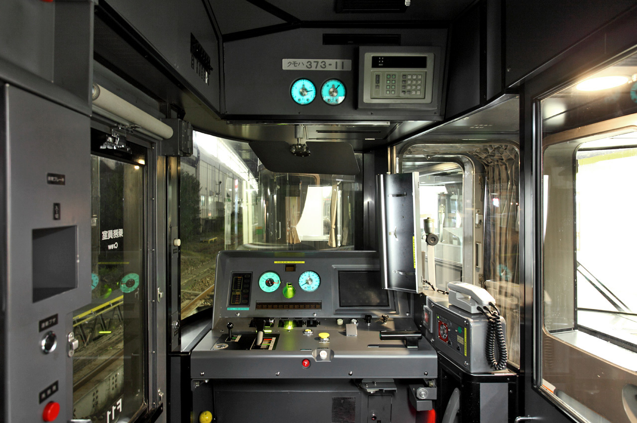 Cockpit of JR Central 373 (Kumoha 373-11).